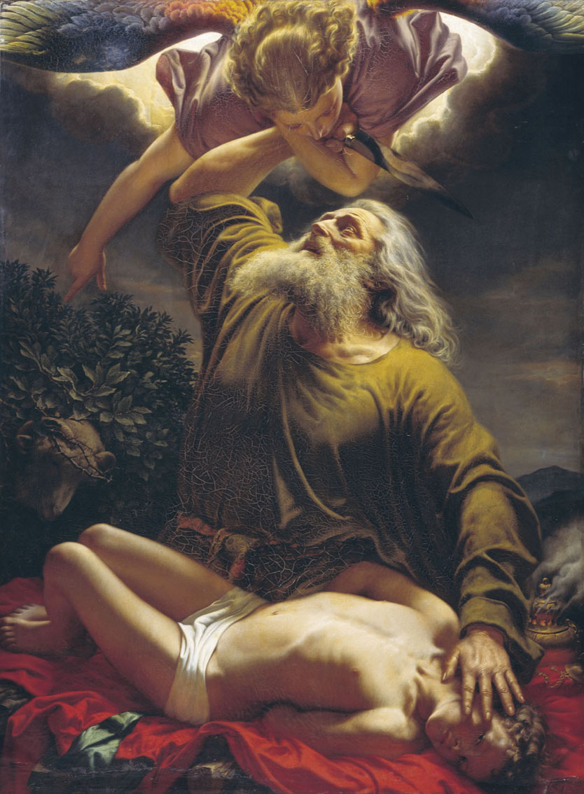 Abraham sacrificing Isaac. Oil on canvas.